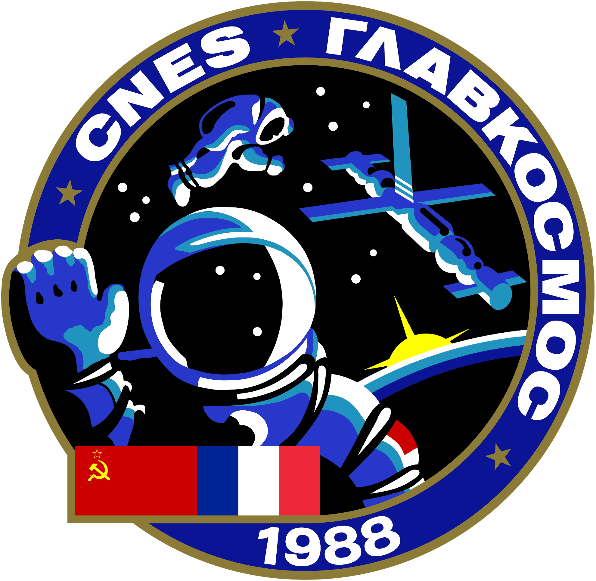 The official crew patch for the Soviet Soyuz TM-7 mission, which delivered the EO-4 and Aragatz crews to the space station Mir.